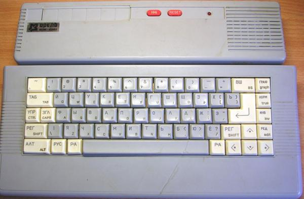 Clone of ZX-Spectrum created at Dnepromash factory in Ukraine